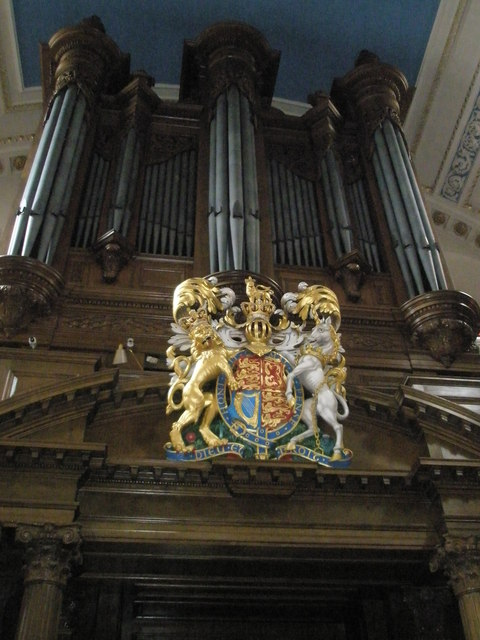 Coat of arms below the St Mary-le-Bow organ, near to London, City of London, Great Britain.